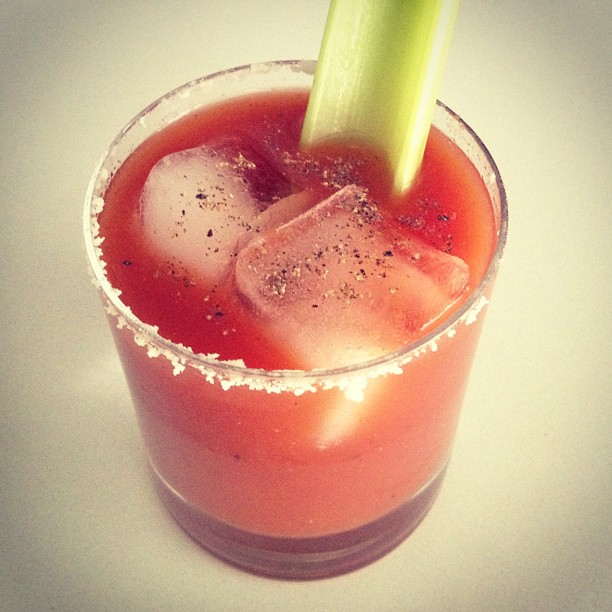 today's bloody mary features kim chi purée, fish oil, sriracha and a rosemary salt rim.